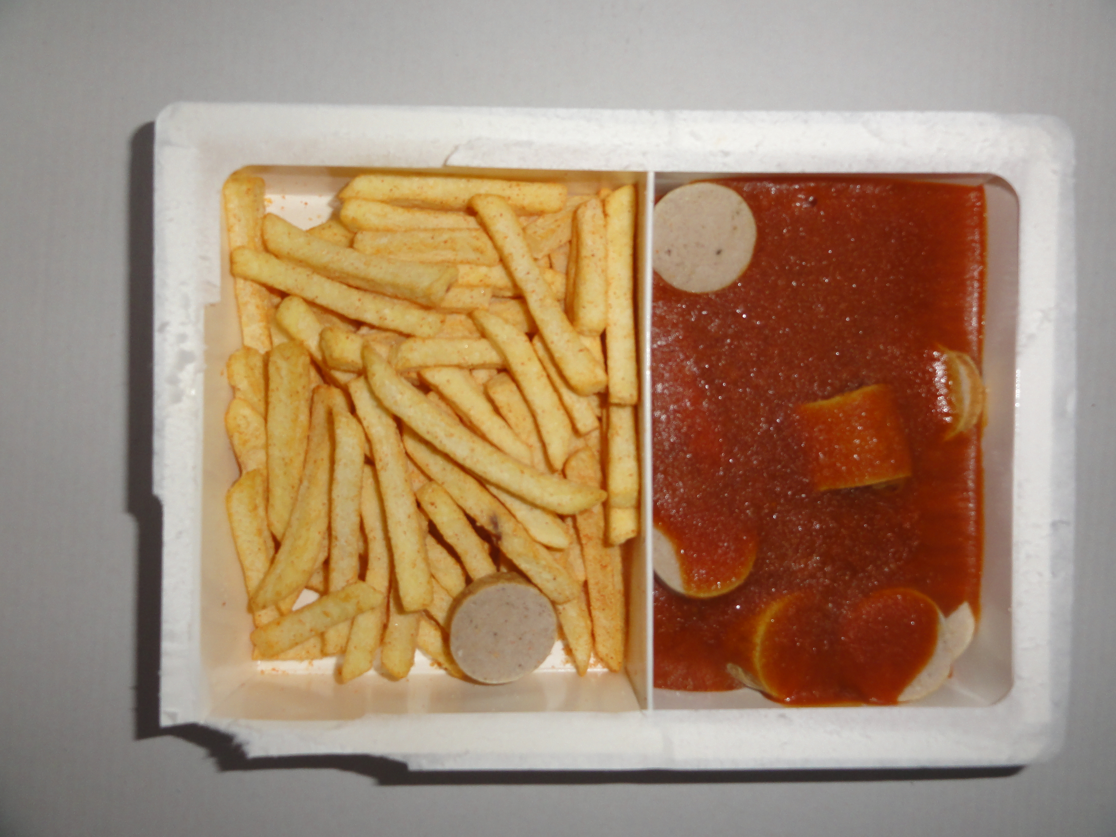 Frozen microwave food (TV dinner): Currywurst with French fries